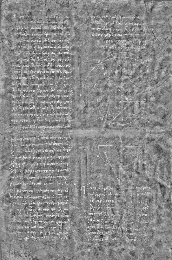 A typical page from the Archimedes Palimpsest after imaging